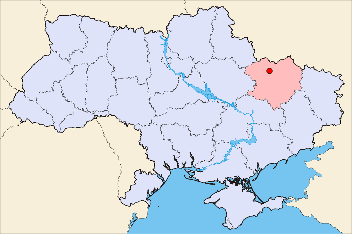 Description = Kharkiv geographical position Source = own work, Skluesener Date = 15.01.2006 Author = Skluesener Credits = Colours chosen according to a map of steschke